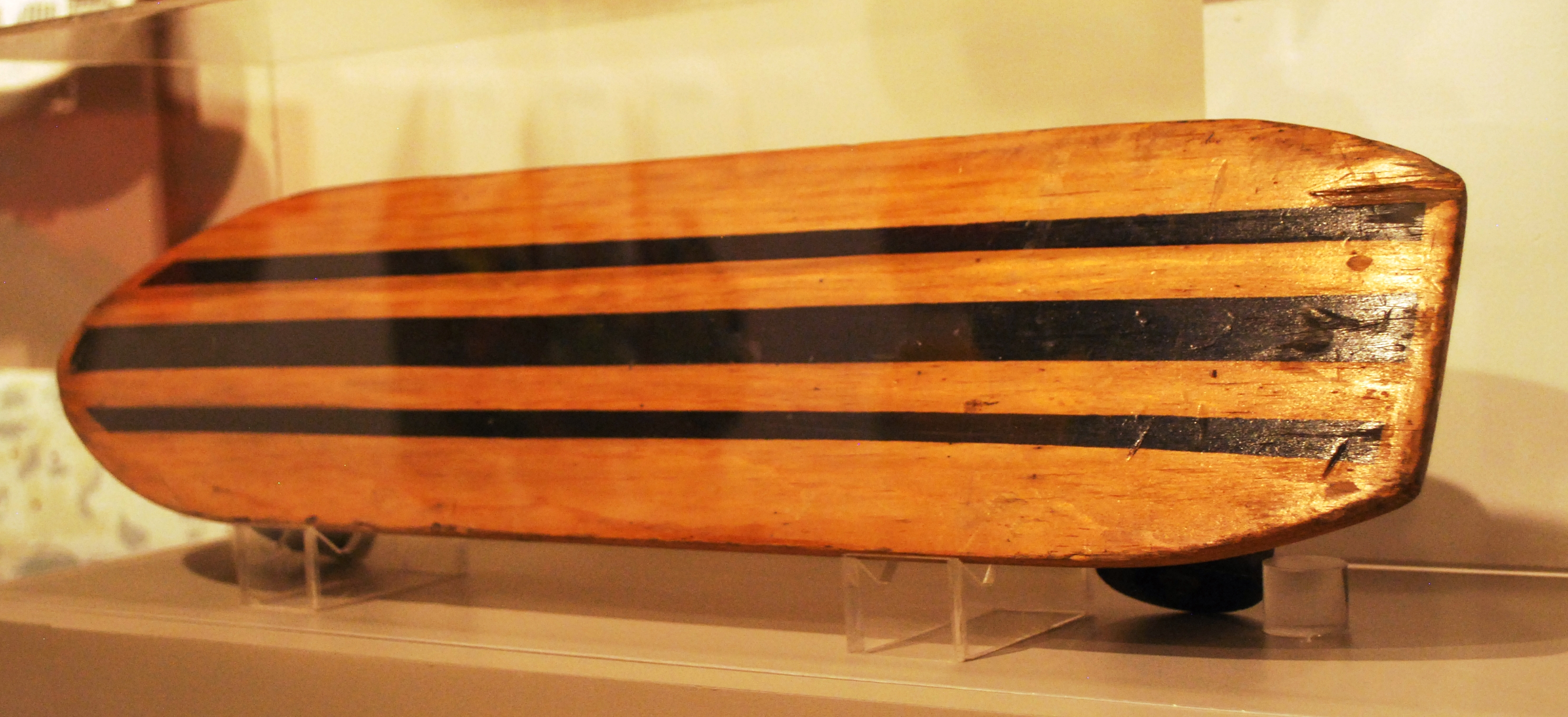 1980s skateboard from the collection of Perseo Medrano as part of the Collections of Collections exhibit at MODO